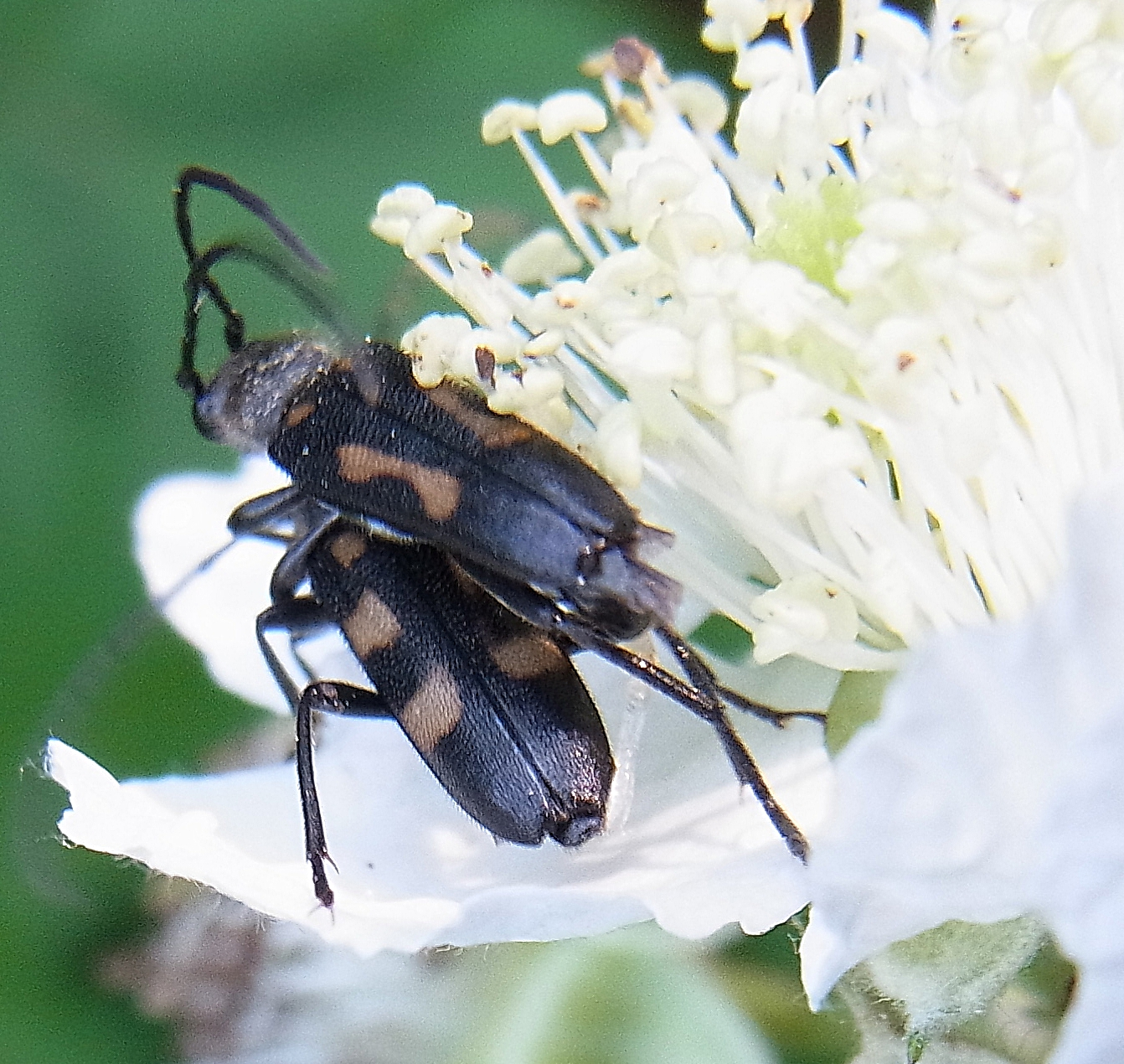 Anoplodera sexguttata from Hungary near Oroszlány at 2015-06-12